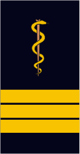 sign of a civil ship's doctor